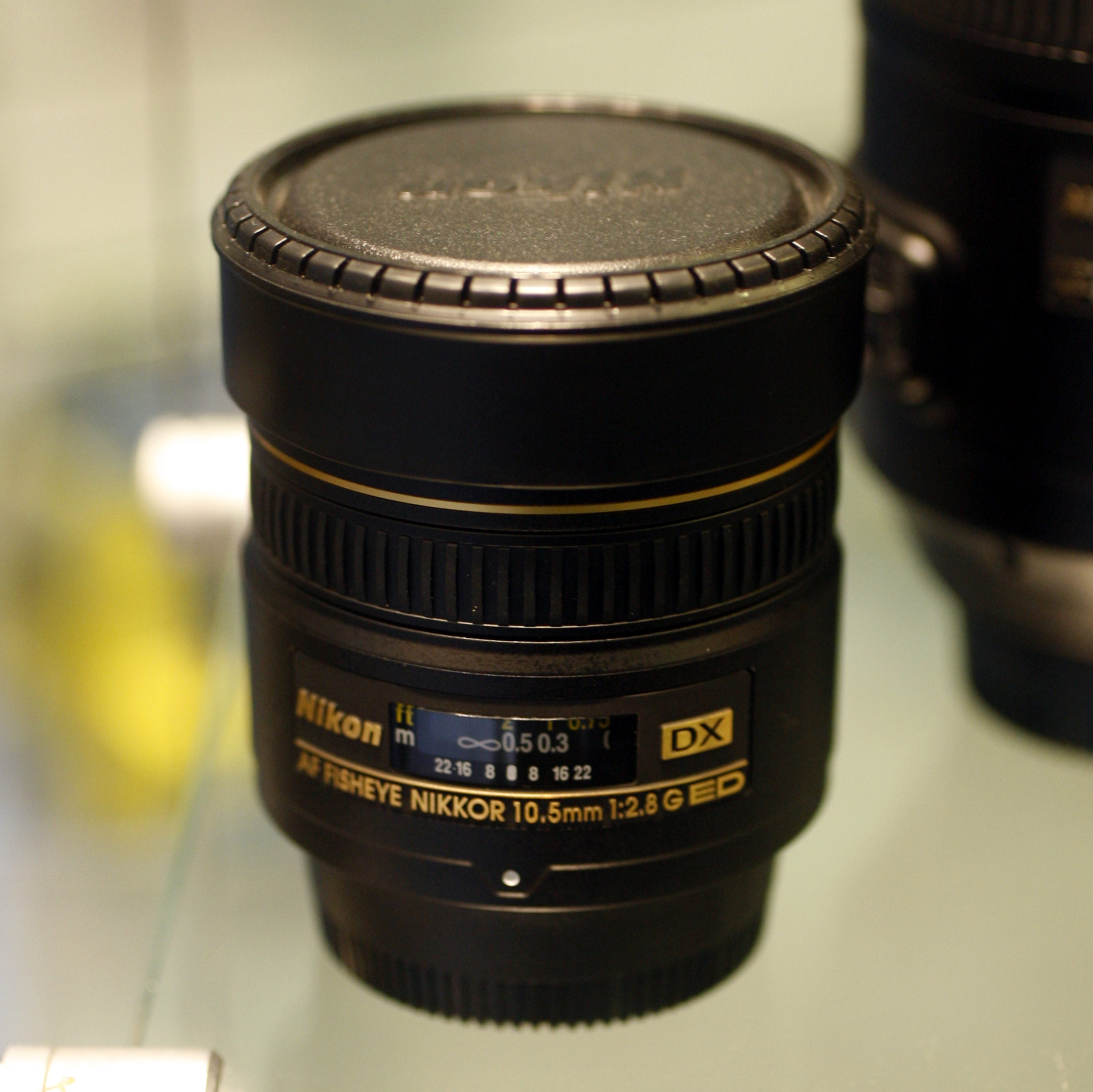 Nikkor 10mm fisheye lens